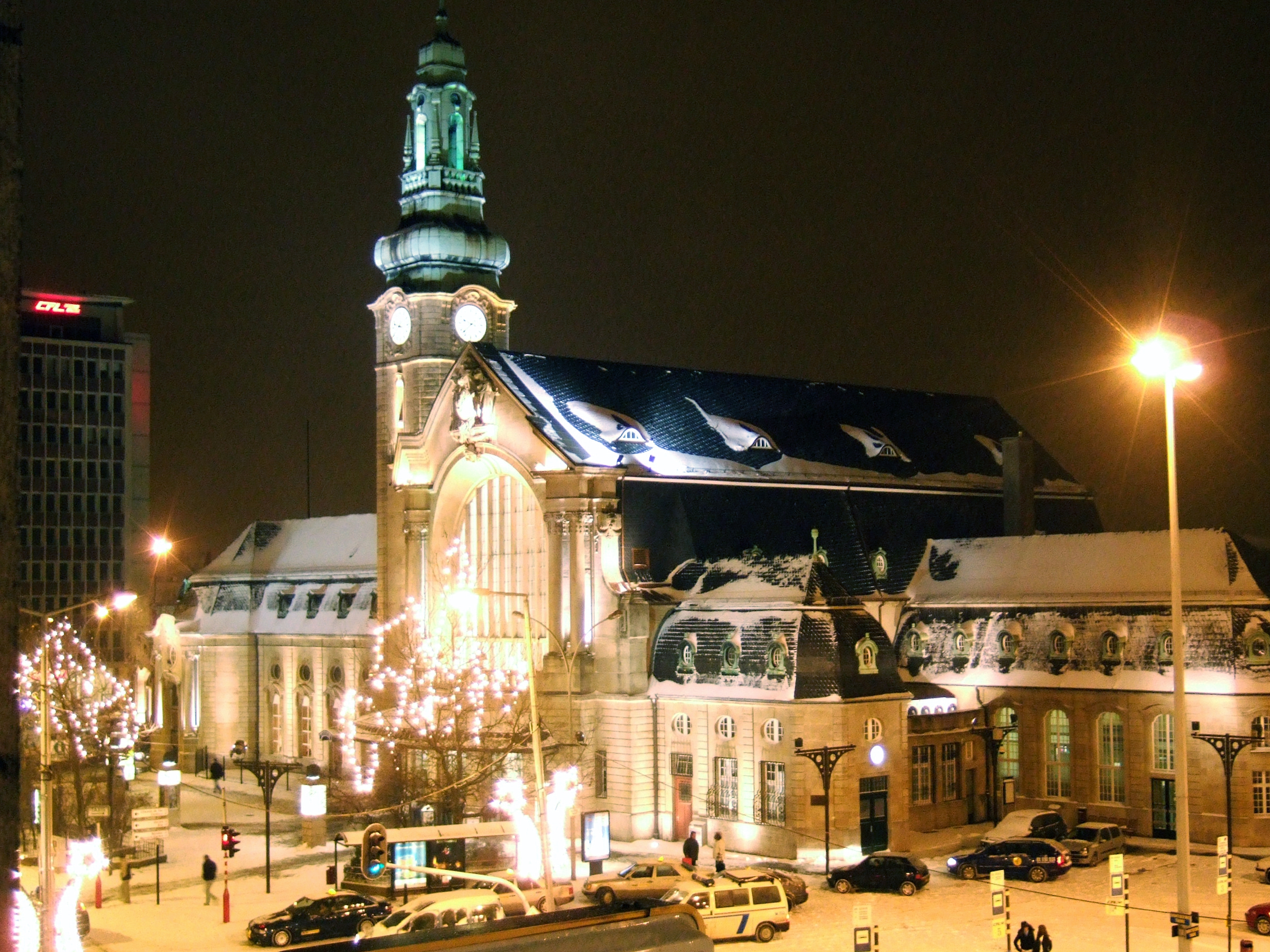 The train station of Luxembourg, at night, in winter. Taken by me.